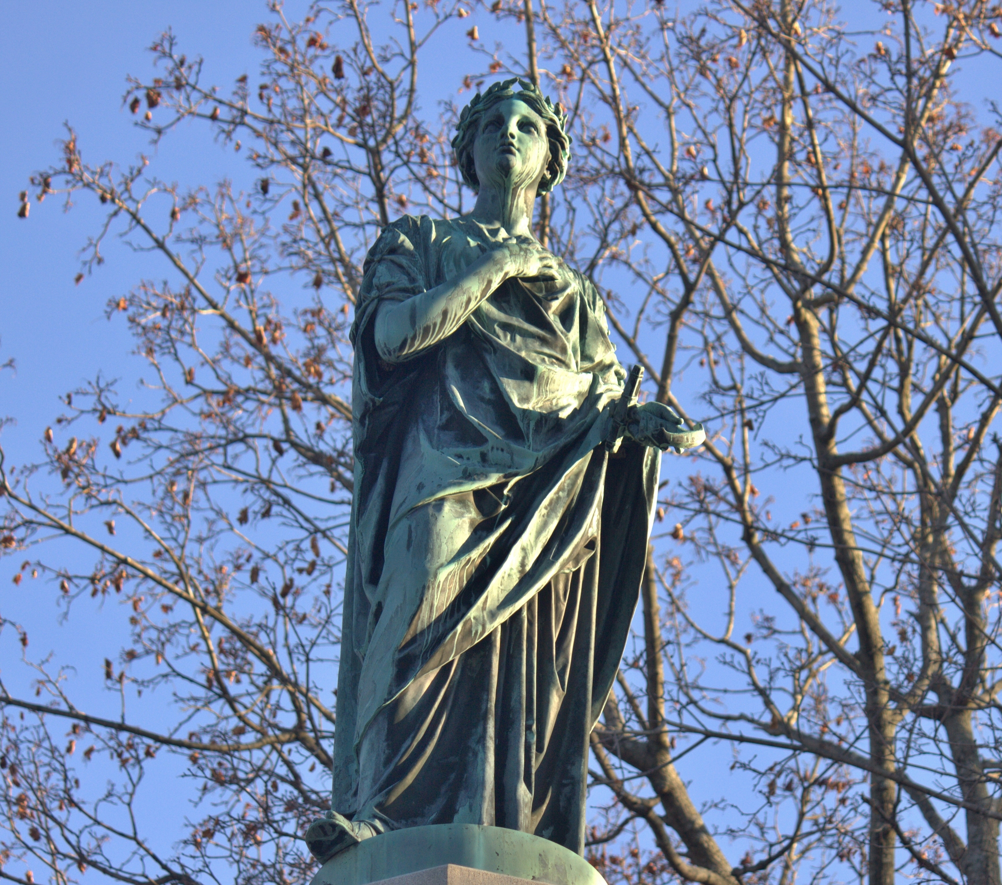 Photograph of statue on Marshall Jewell monument, sculpted by Carl Conrads. Located in Cedar Hill Cemetery, Hartford, Connecticut.